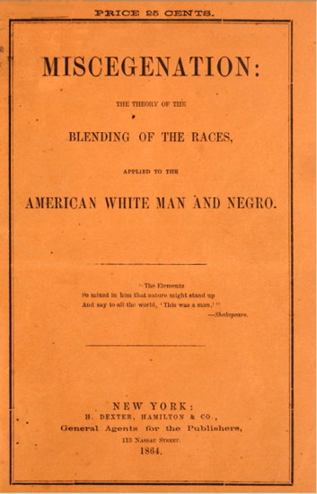 Title page of the 72 page pamphlet "Miscegenation: The Theory of the Blending of the Races, Applied to the American White Man and Negro", which was published in 1864. The pamphlet first coined the term 'miscegenation'. Published as a white supremacist hoax during the American Civil War to discredit abolitionists and the Republican Party.